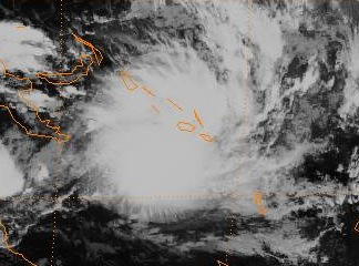 Tropical Cyclone Fergus on December 25, 1996.